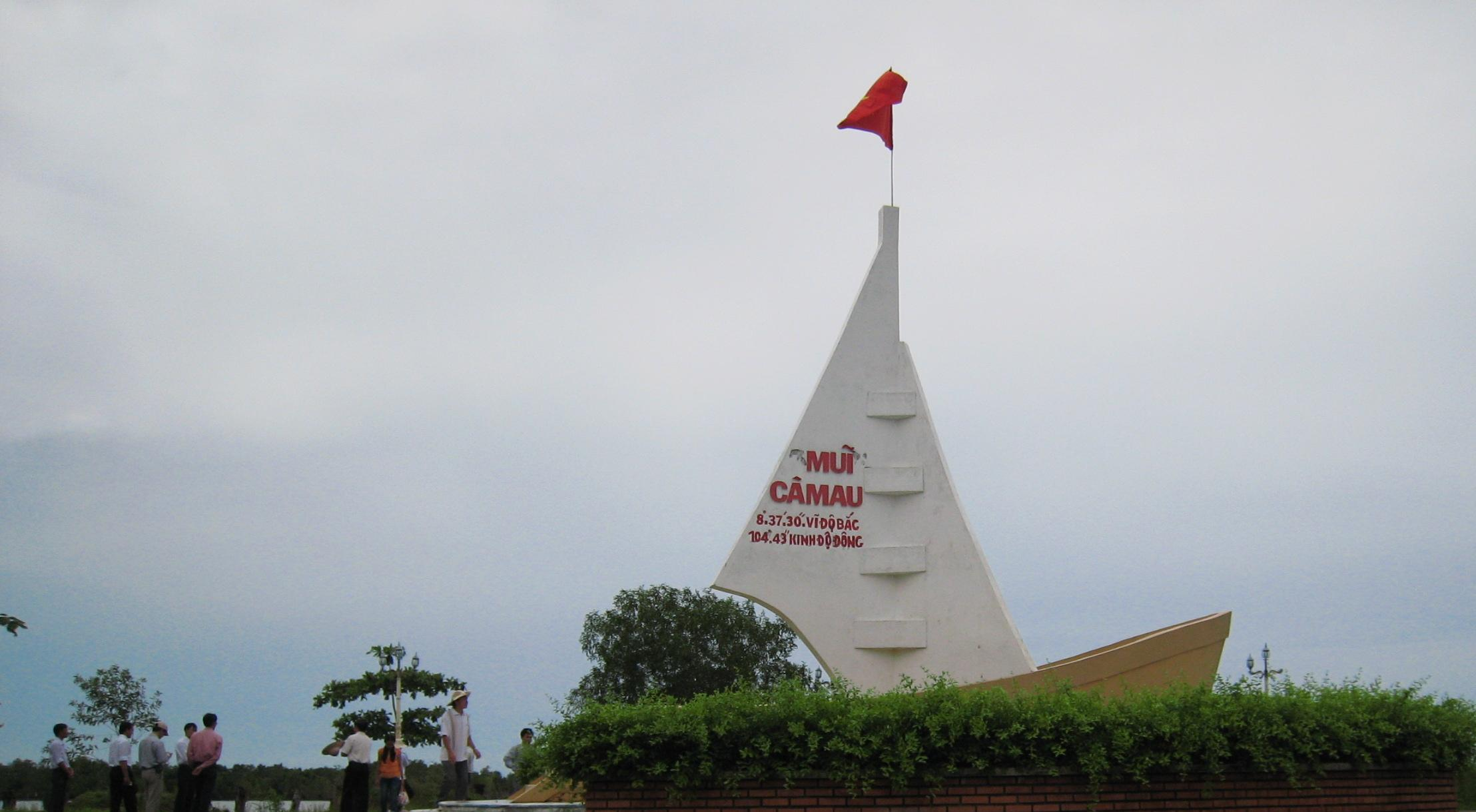 The boat-shaped monument at Cape Ca Mau, the southernmost point on the mainland of Vietnam.